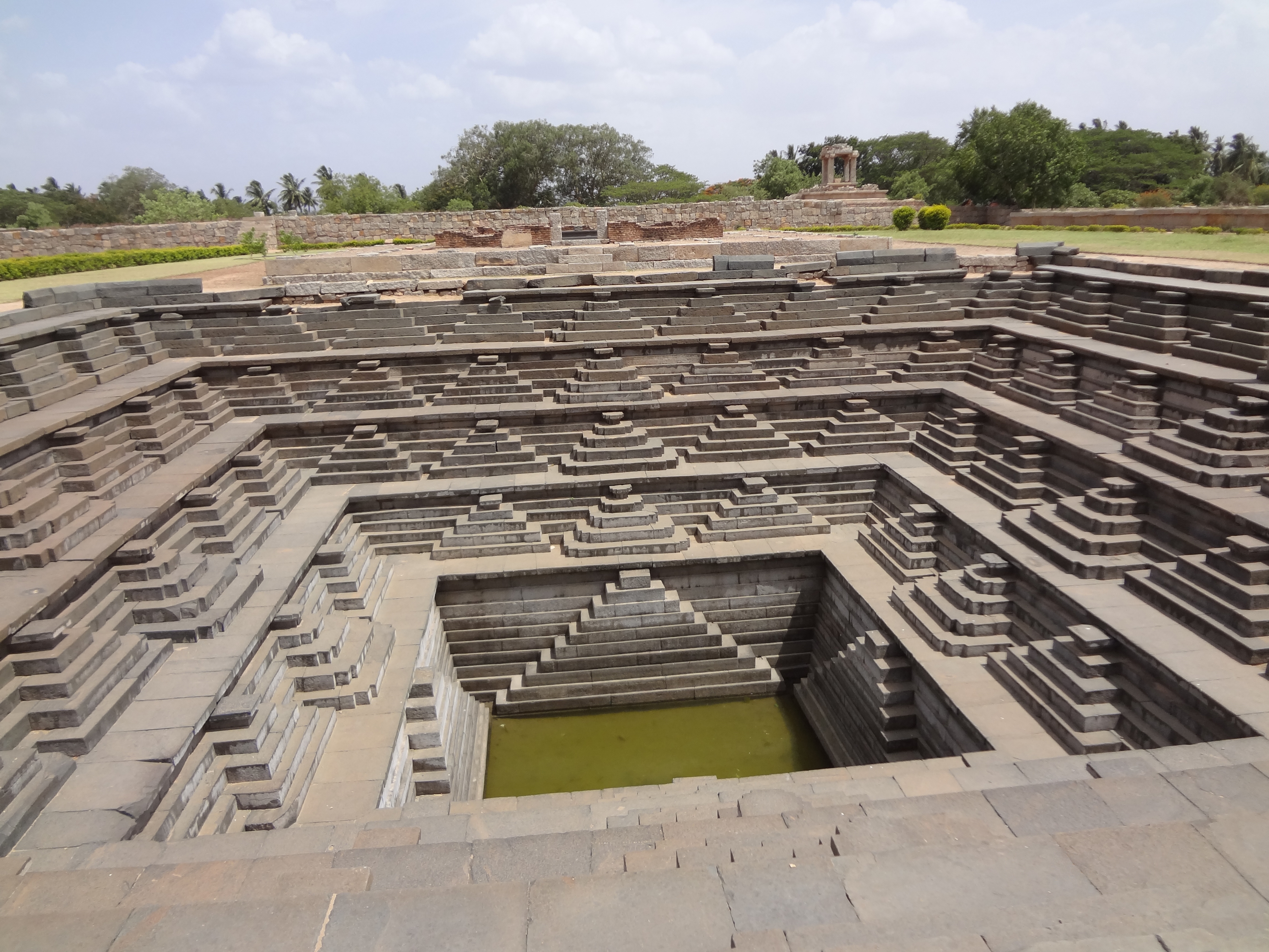 Hampi group of monuments (except those under ASI)